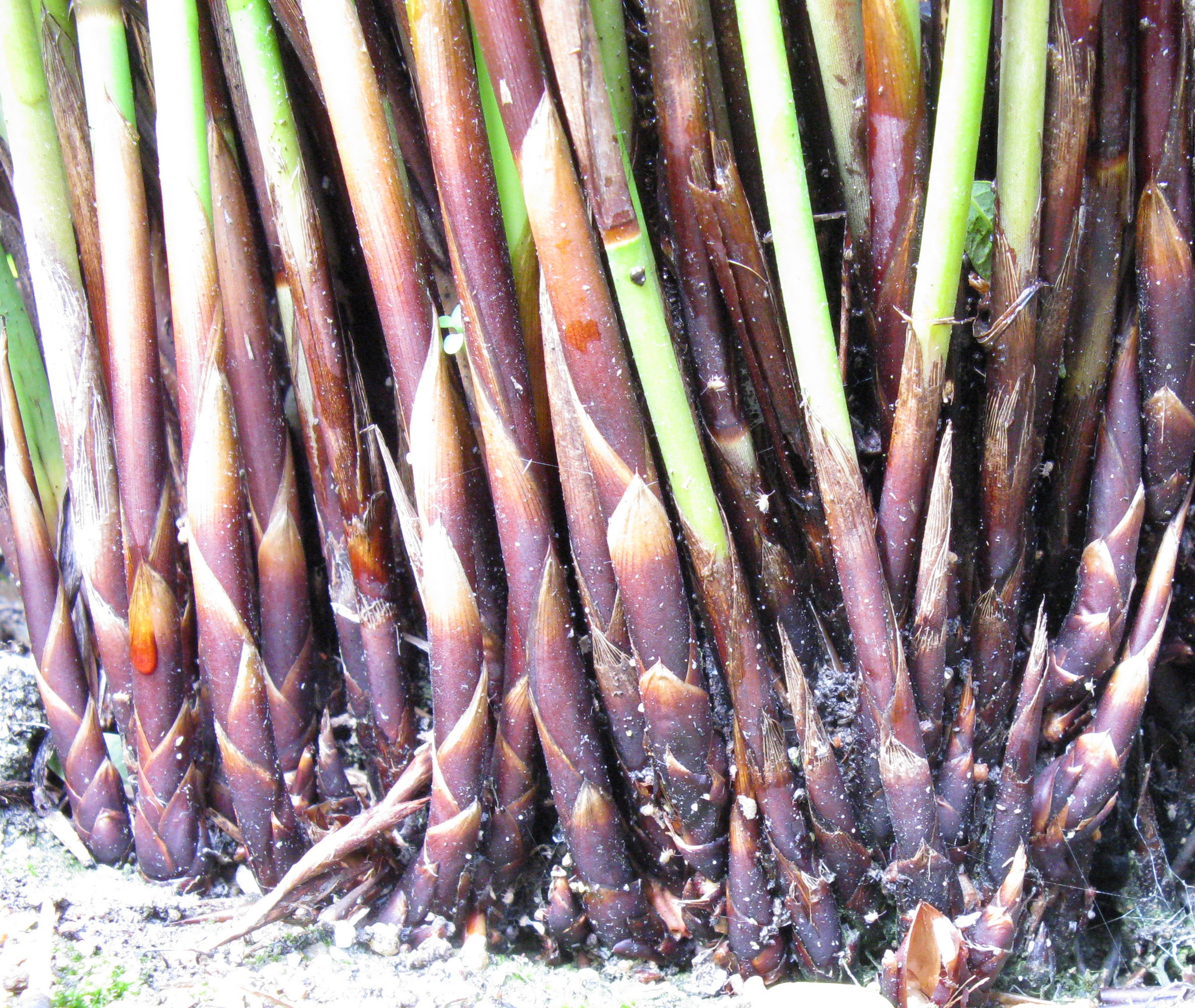 Thamnochortus, like most Restionaceae grows in tussocks with convolute leaf sheaths round the bases of the stems